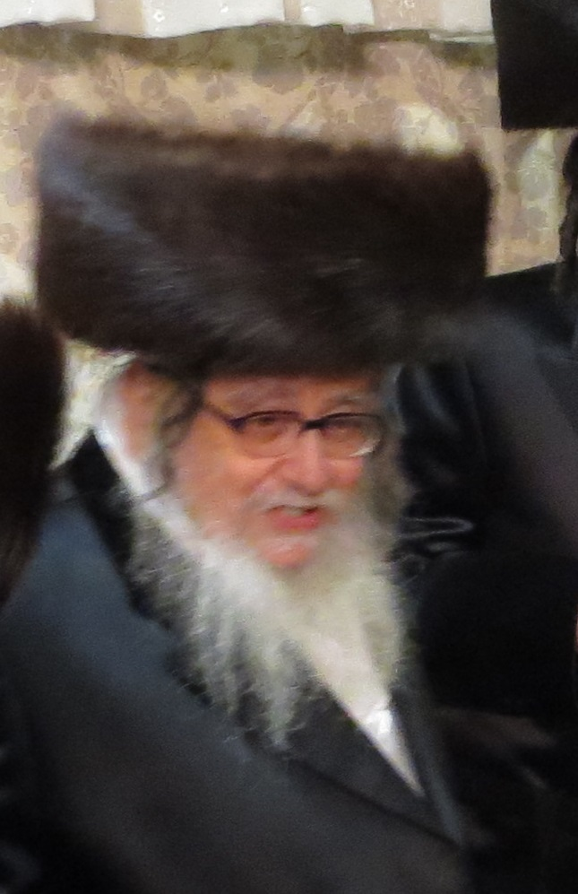 Grand Rabbi Mordecai Stein of Fultichan